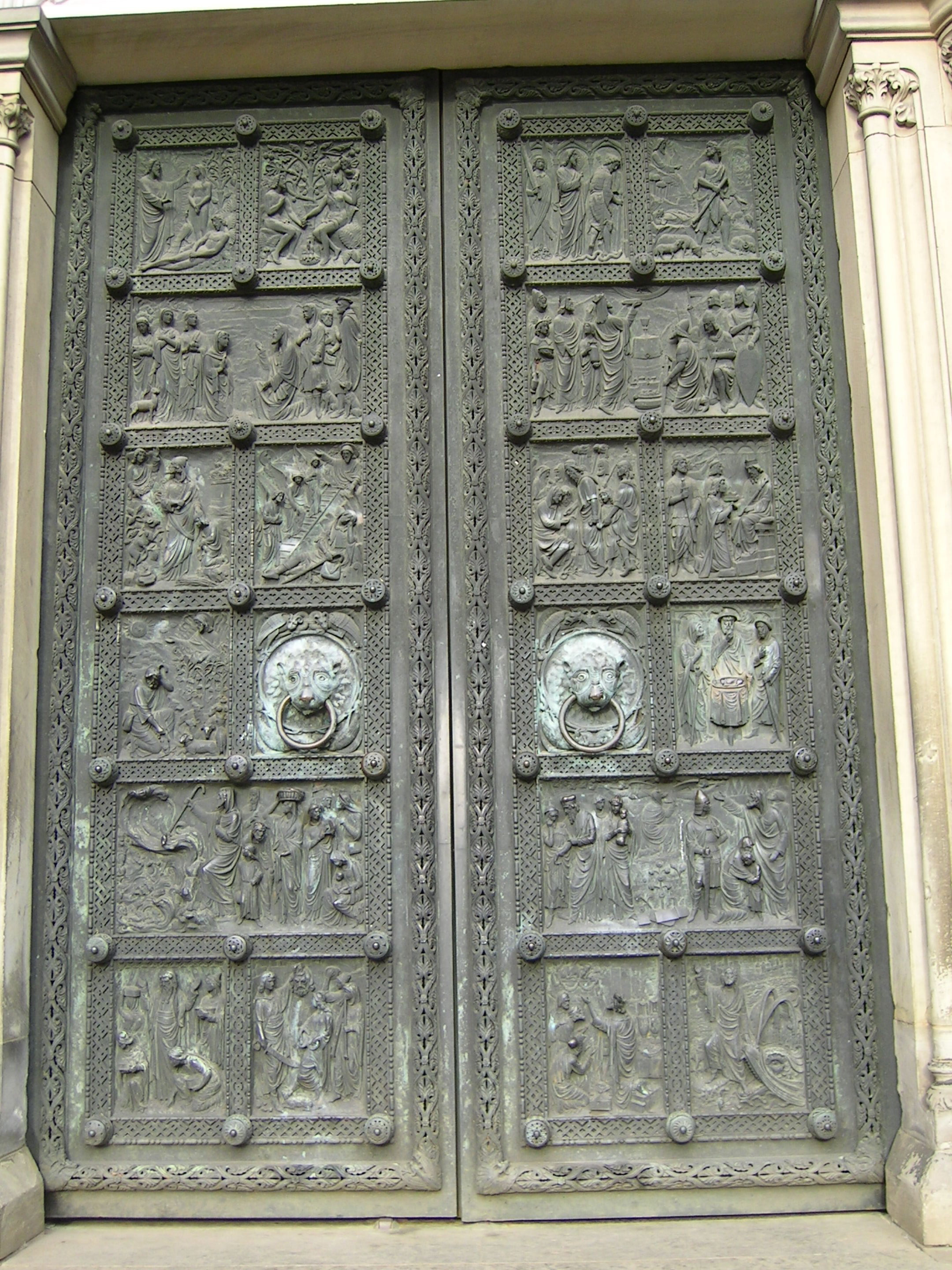 Left western portal of Bremen Cathedral, closed bronze door leaves User:Tarawneh/rami Left Door, ST Petri Dom, Bremen